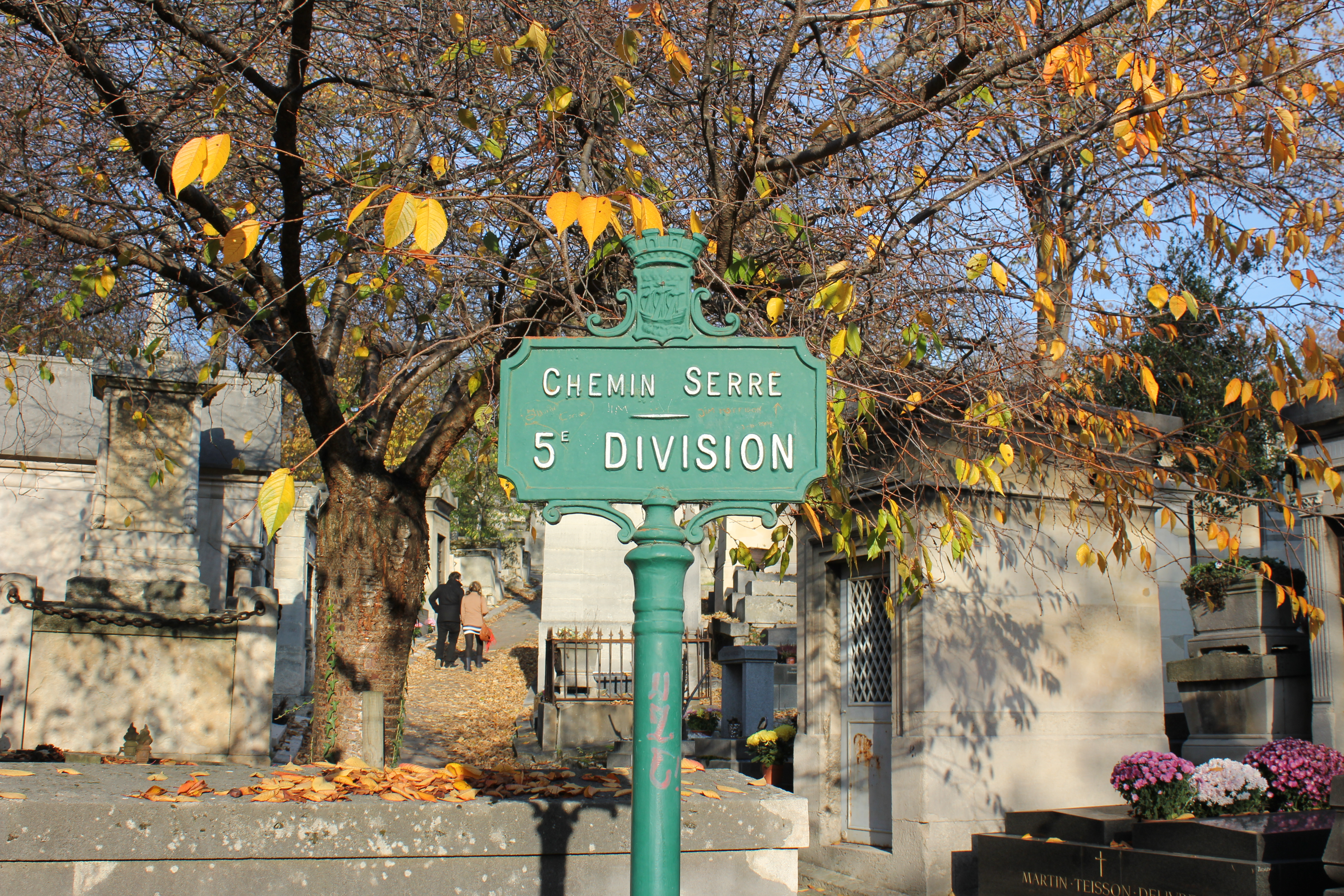 Street signs of the Père Lachaise Cemetery, in Paris.